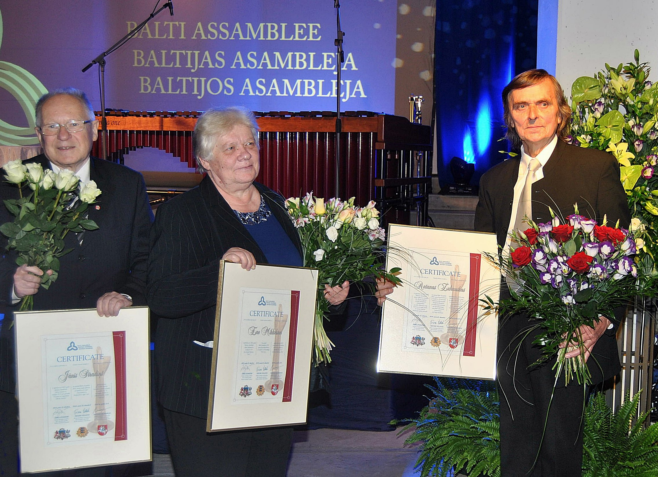 Riga Art Space will host the awards ceremony of the Baltic Assembly, in the exhibition hall of the city of Riga (Latvia); Photo Saeima: Winners of the Baltic Assembly Awards in Science, Literature, and Art - Janis Stradins, Jan Mihkelson, and Antanas Žukauskas (October 22, 2010).